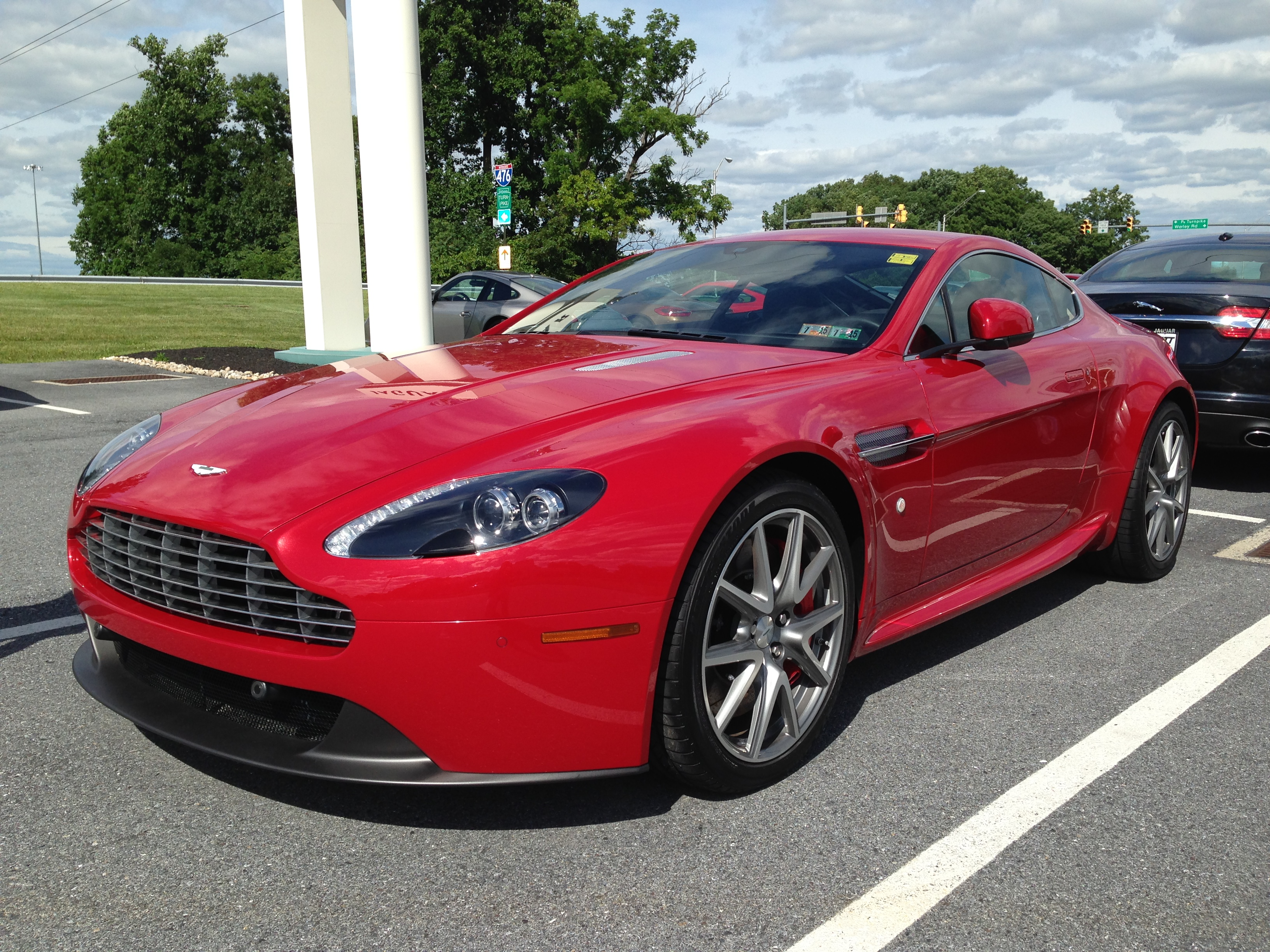 Aston Martin V8 Vantage